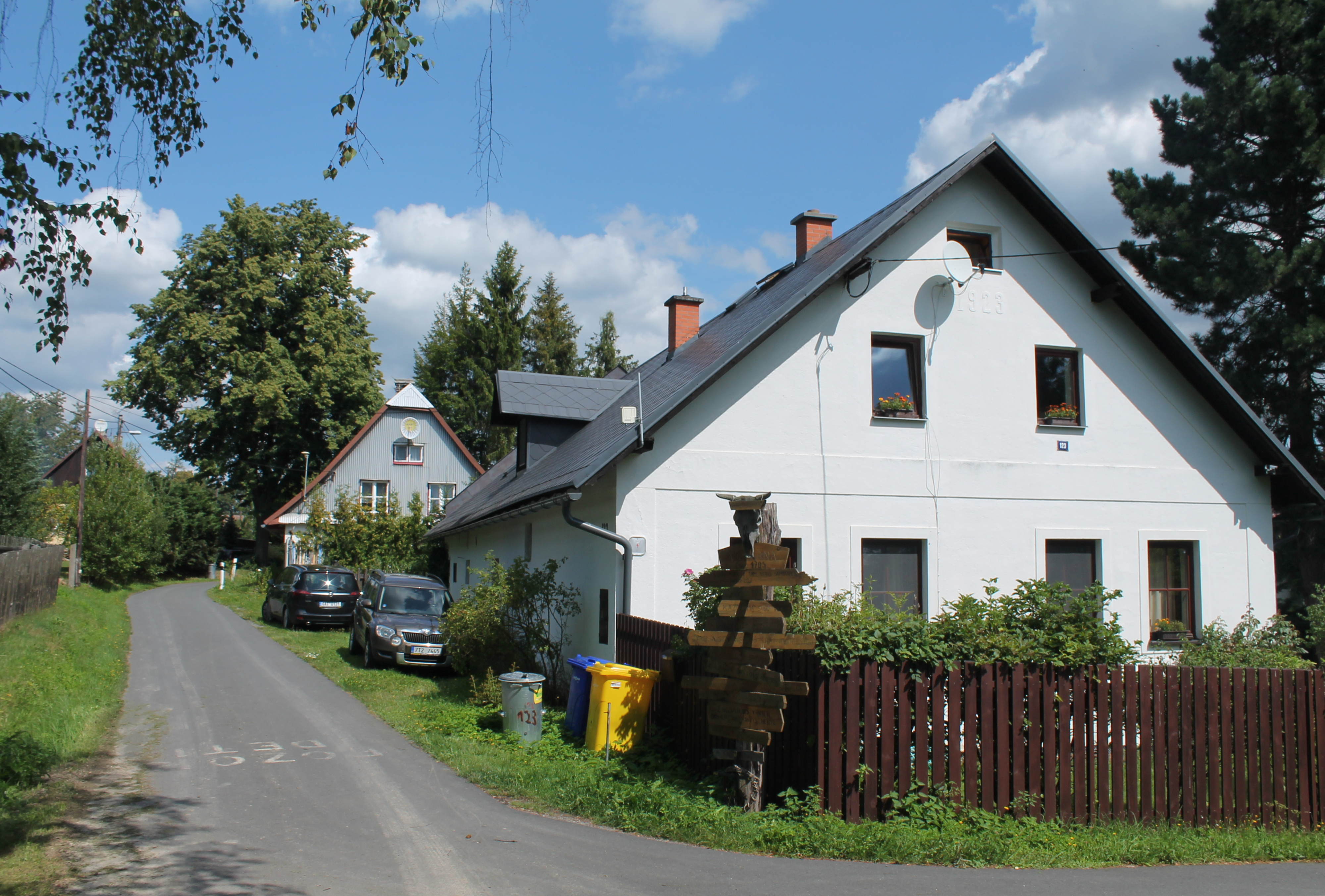 Volárna, Roudno, Bruntál District, Czech Republic